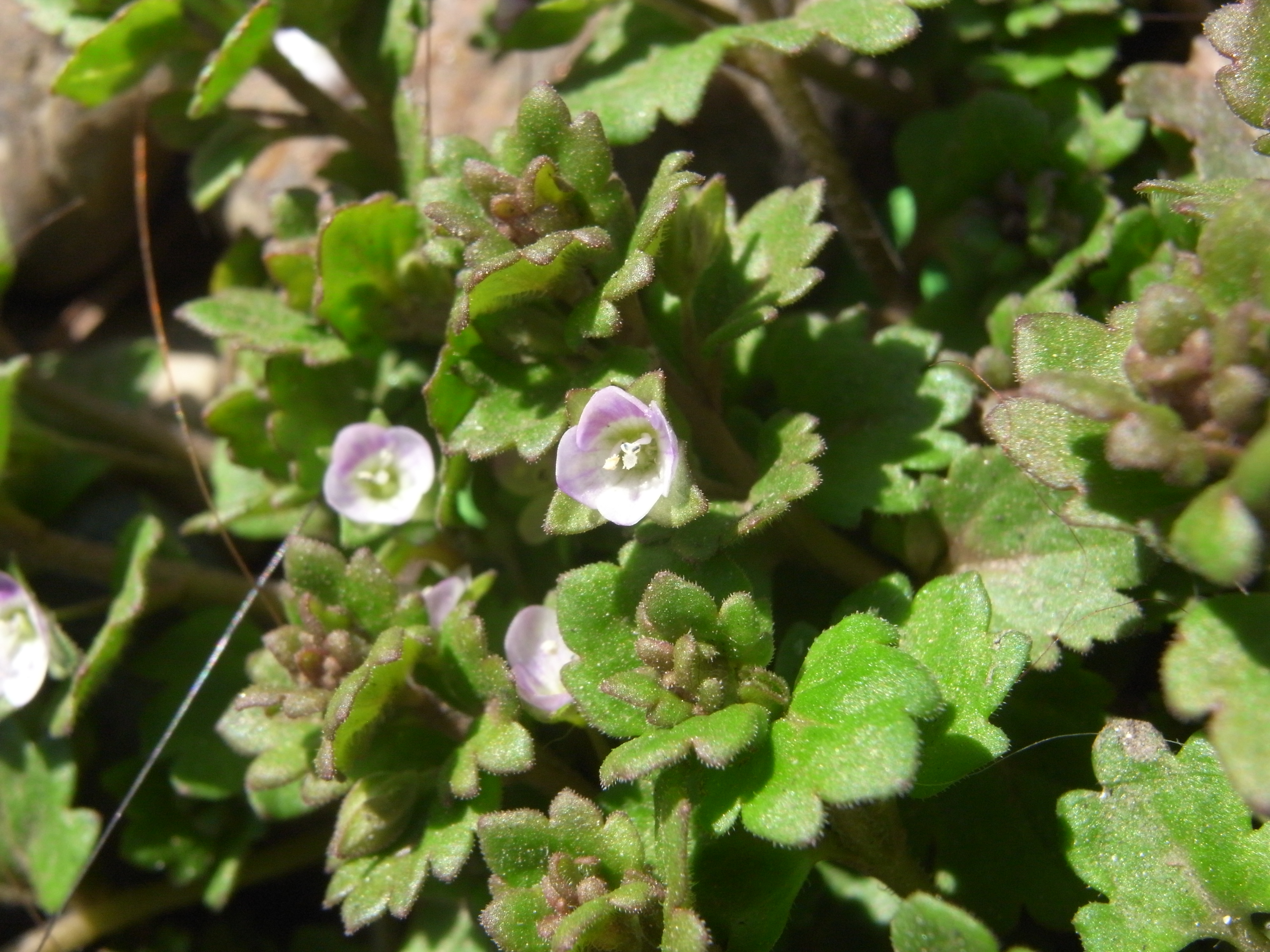 Veronica polita var. lilacina